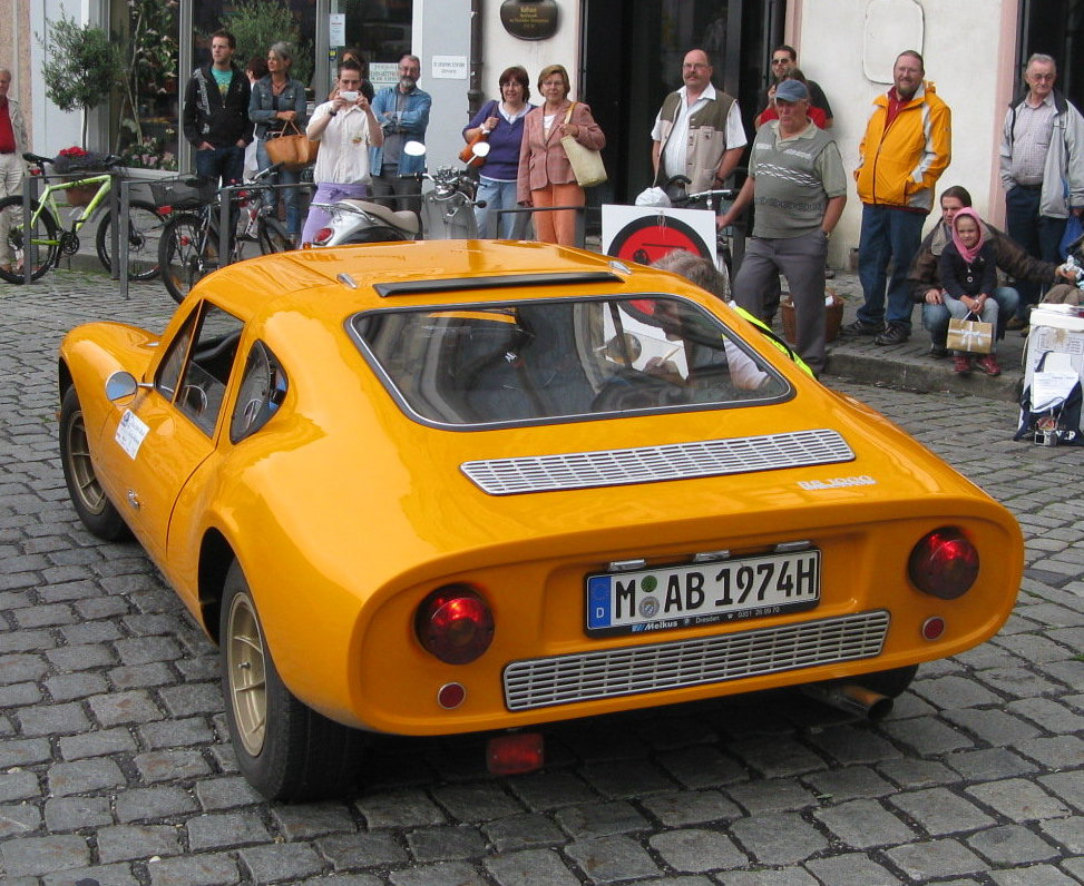 1974 Melkus RS 1000